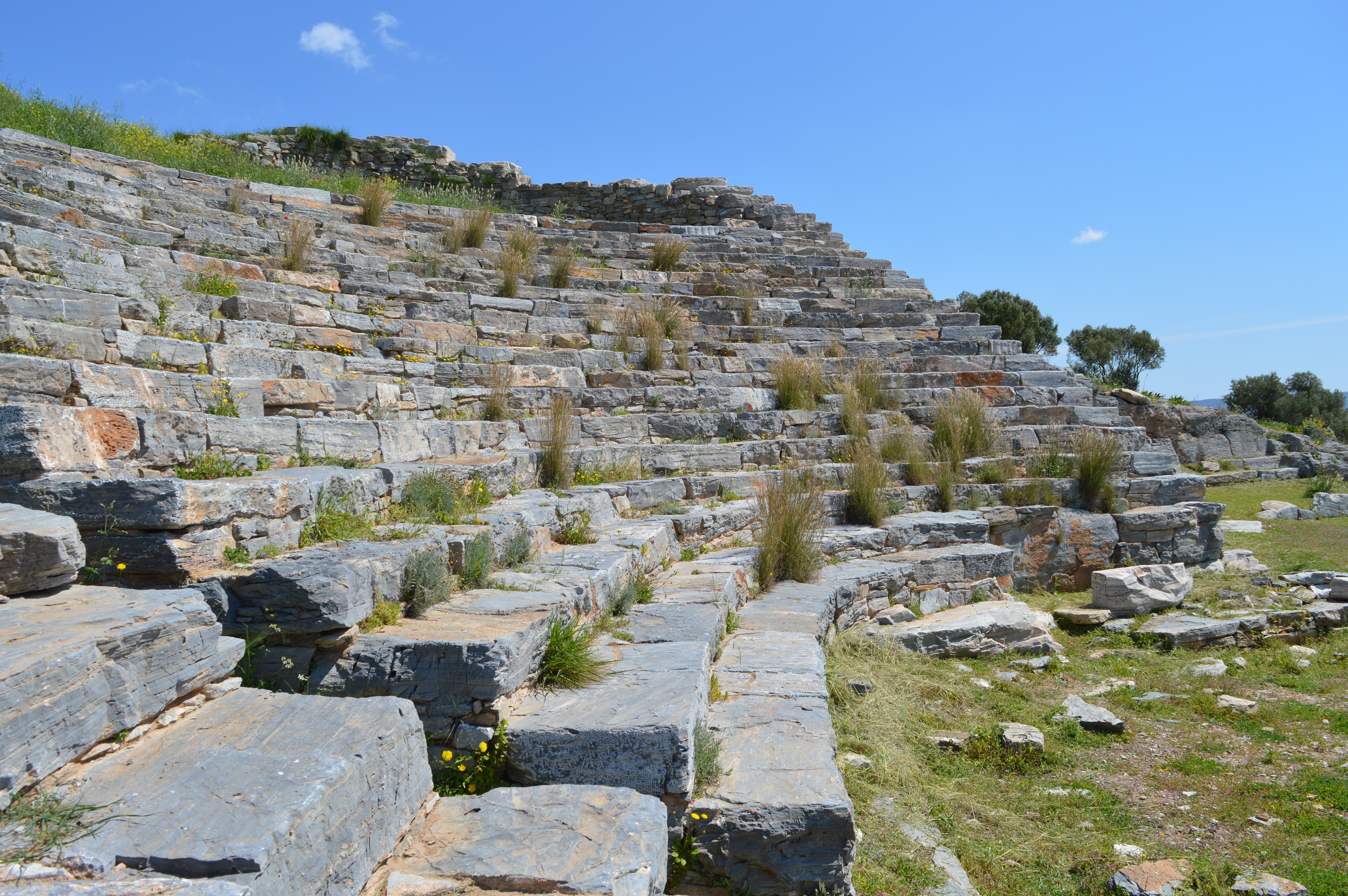 Ancient Theatre of Thorikos, Municipality of Lavreotiki